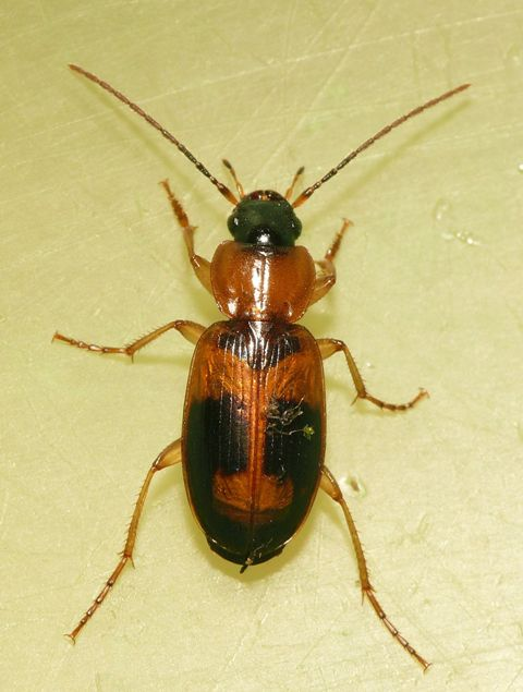 Badister lacertosus, location: The Netherlands - Wageningen - Plasserwaard